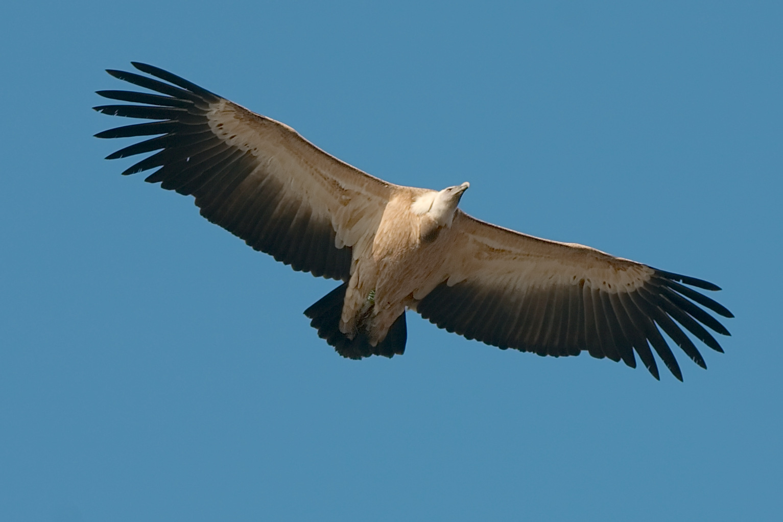 Gyps fulvus at zoo Salzburg 2010